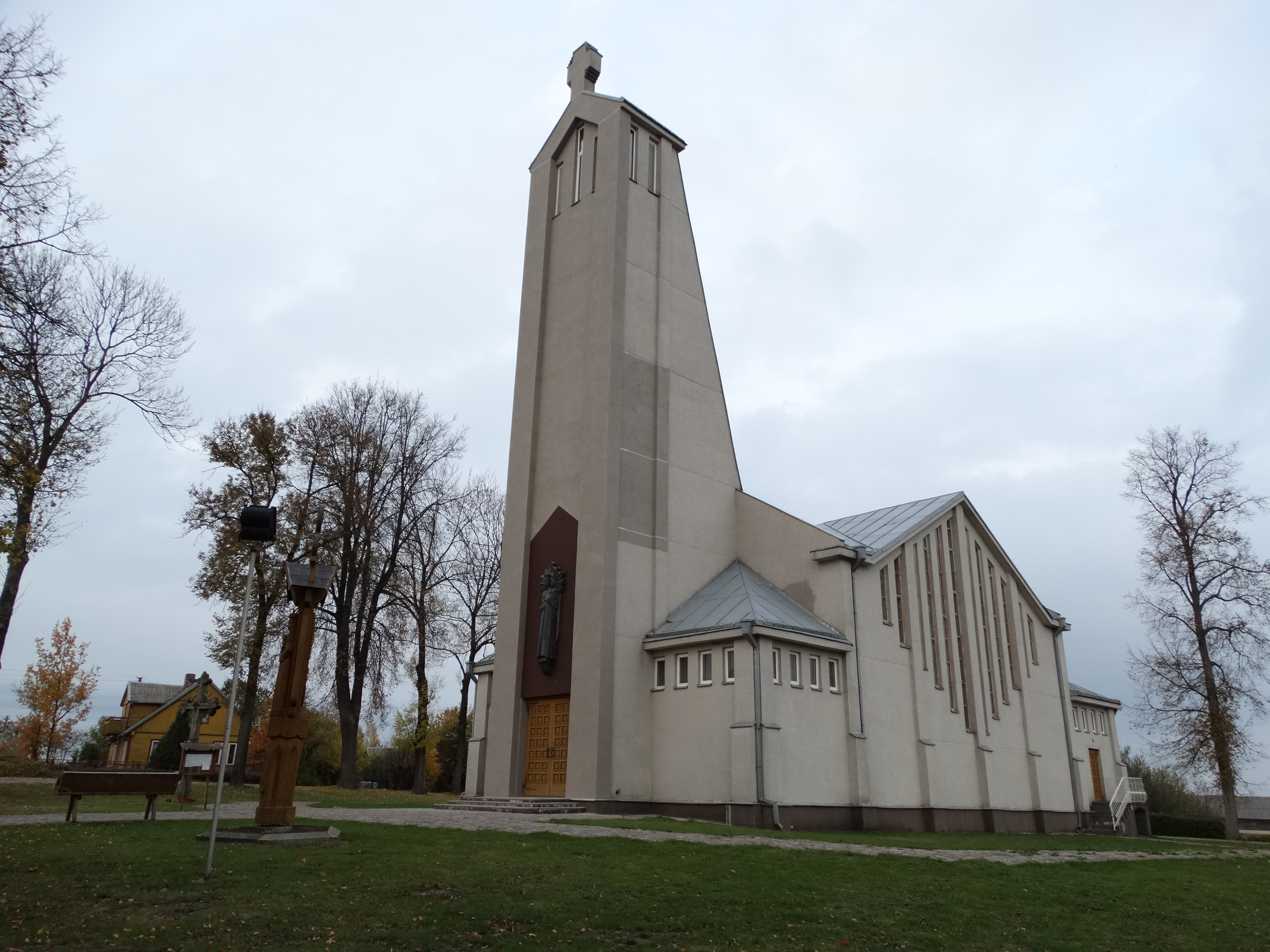 Roman Catholic Church of Saint Casimir, Kučiūnai, Lazdijai district, Lithuania